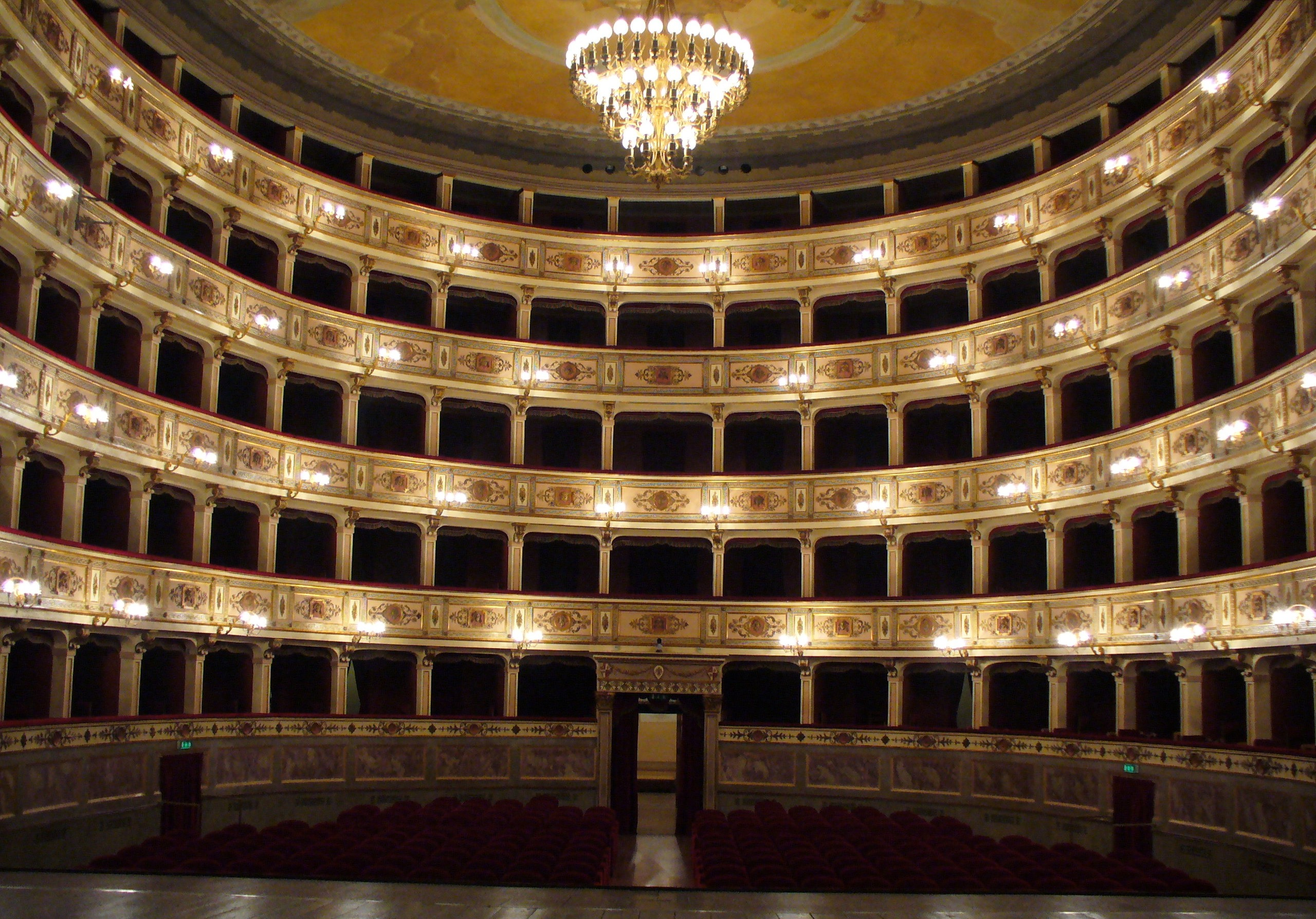 an interior view of "Teatro dell'Aquila" in Fermo, taken by the stage